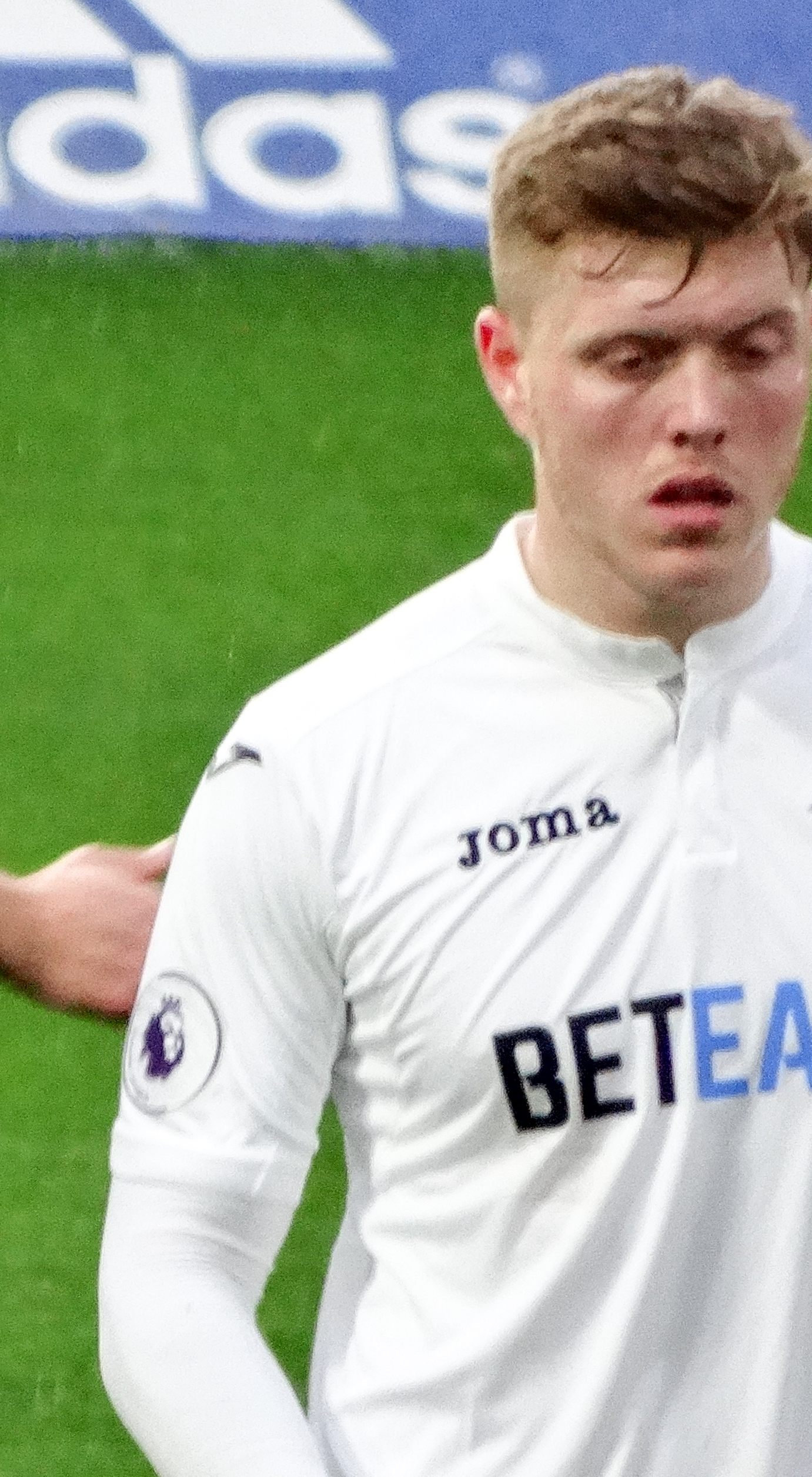 Alfie Mawson playing for Swansea City against Chelsea at Stamford Bridge, London on 25 February 2017